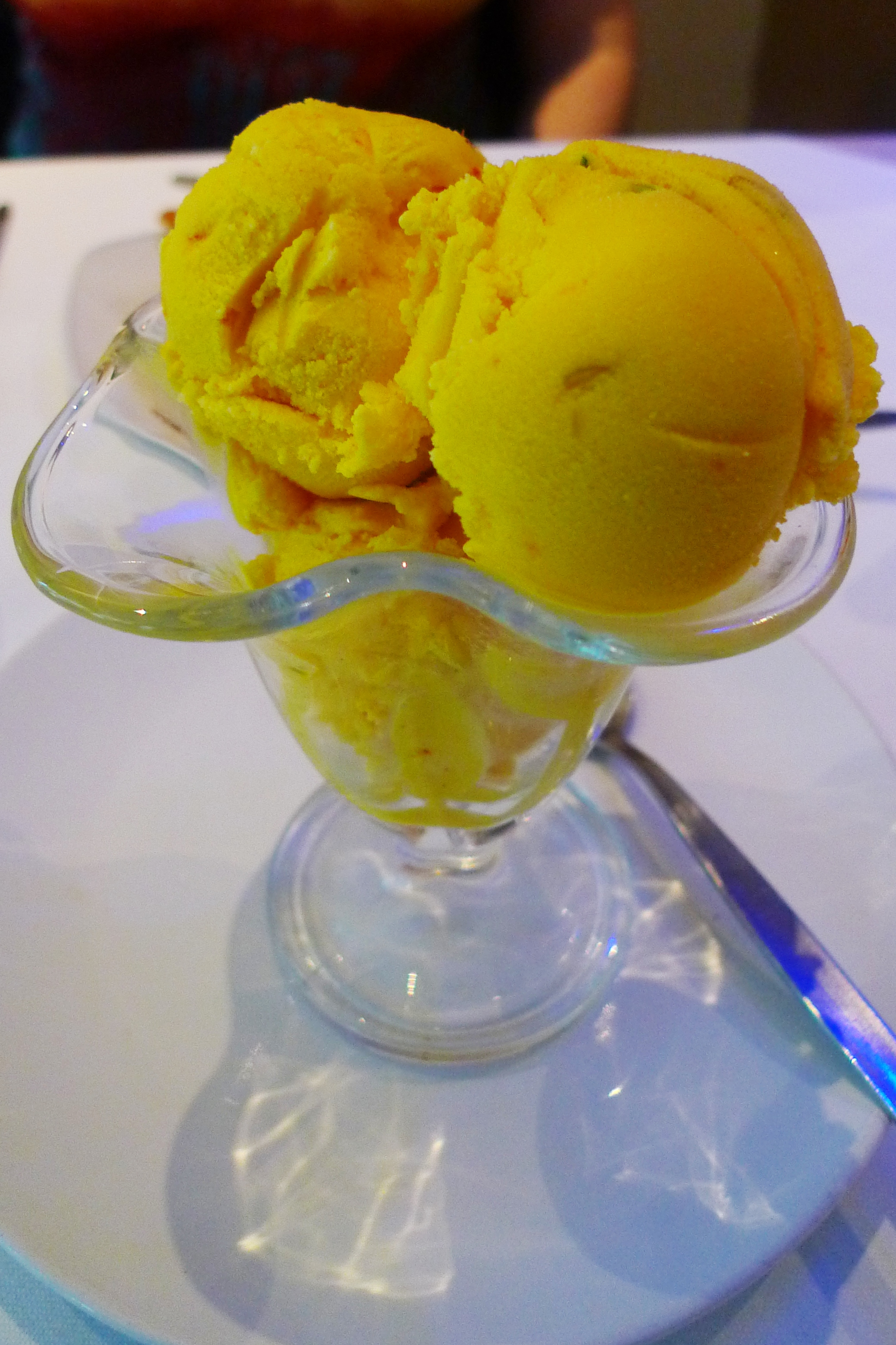 Bastani (Persian ice cream made with saffron and pistachio), very nice. At Gilak, Holloway Road.